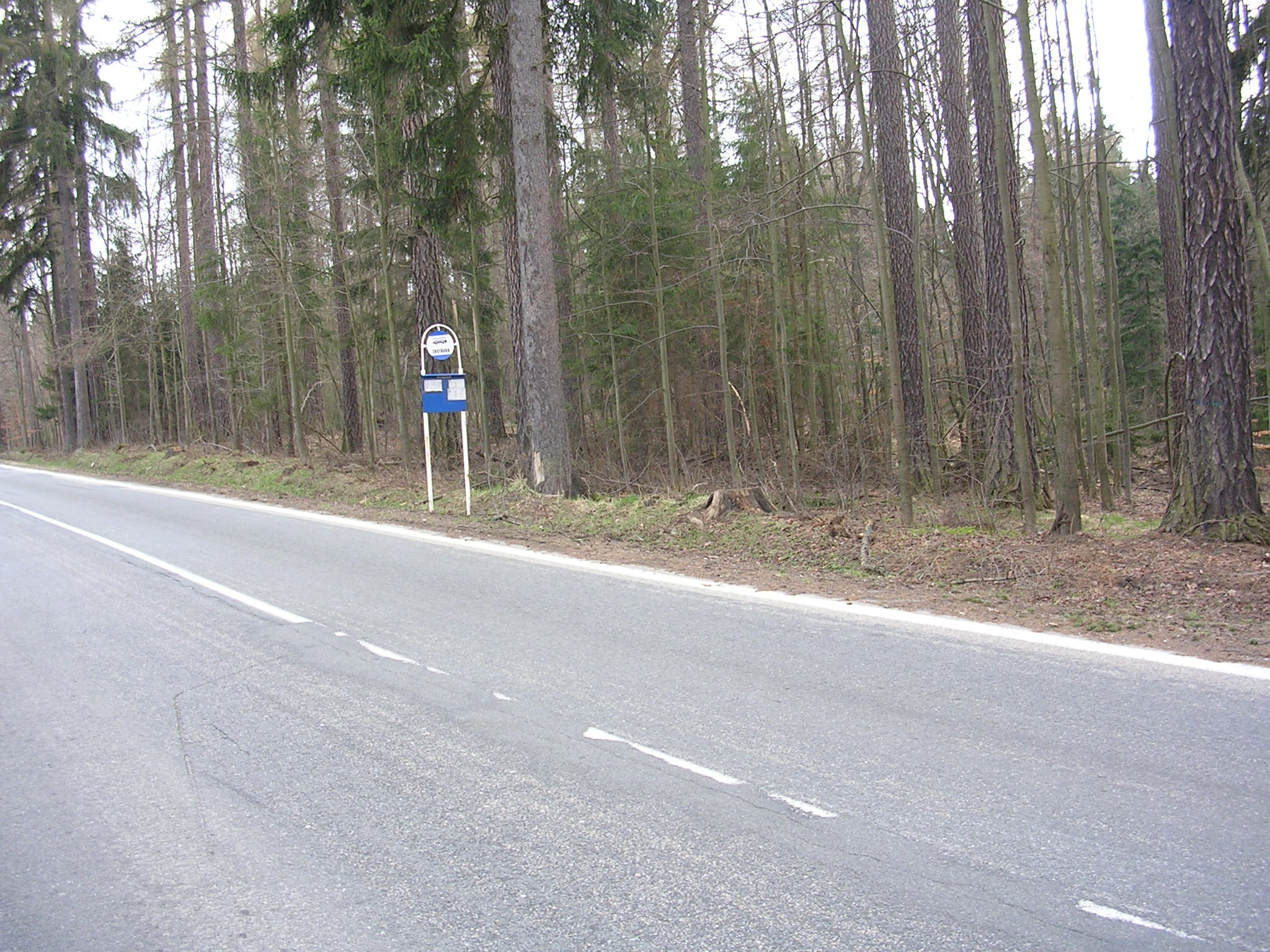 Horní Pěna, Jindřichův Hradec District, the Czech Republic. Bus stop "Horní Pěna, Hejlíček".